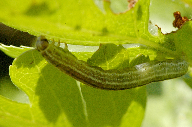 Picture taken in Commanster, Belgian High Ardennes . Species: Epirrita christyi caterpillar